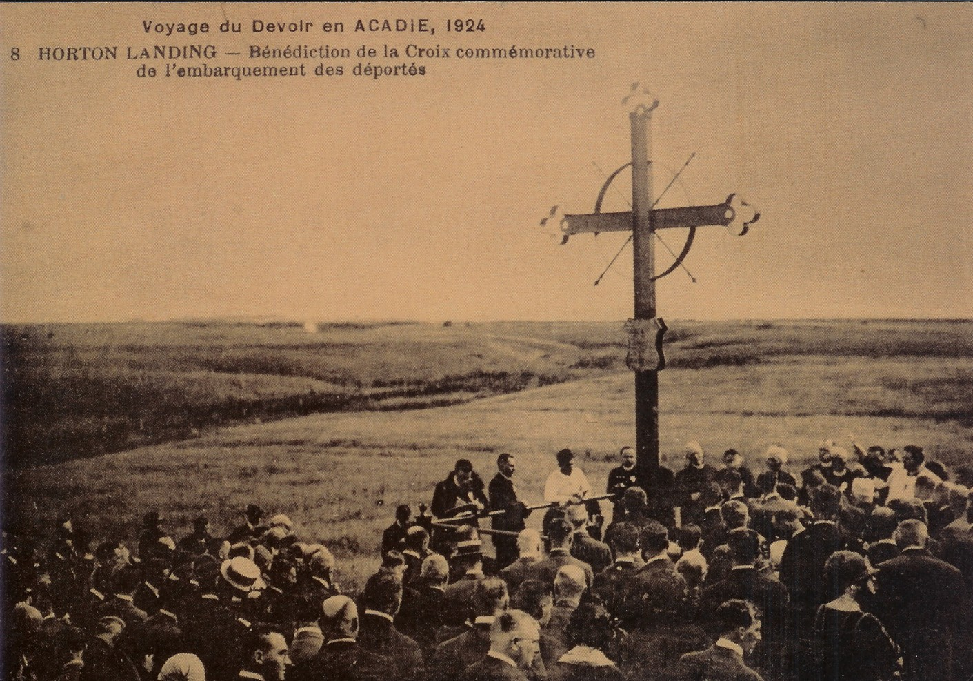 The Deportation cross in Hortonville, Grand-Pré, Nova Scotia.